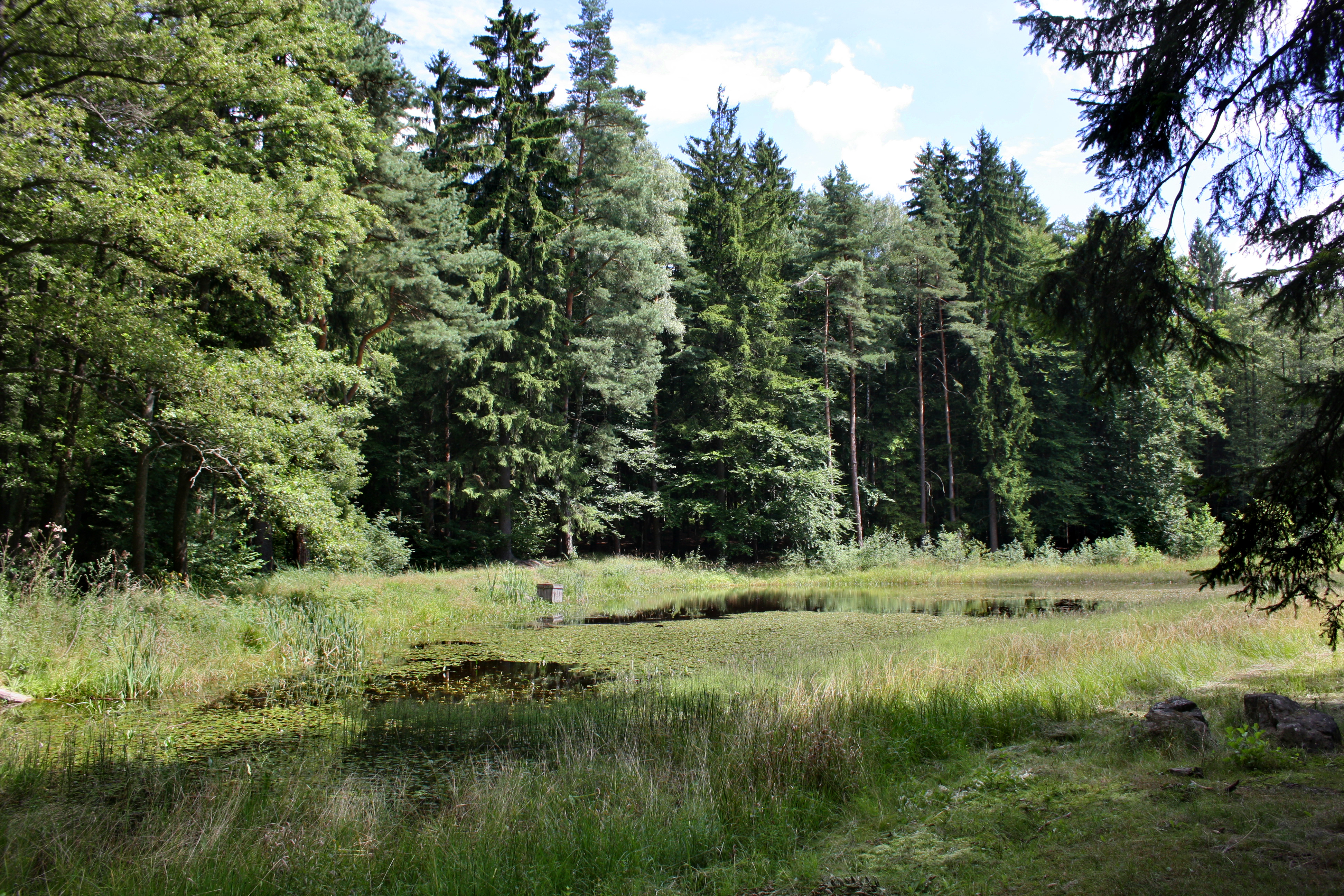 Ivaniny rybníčky natural reserve, Czech Republic